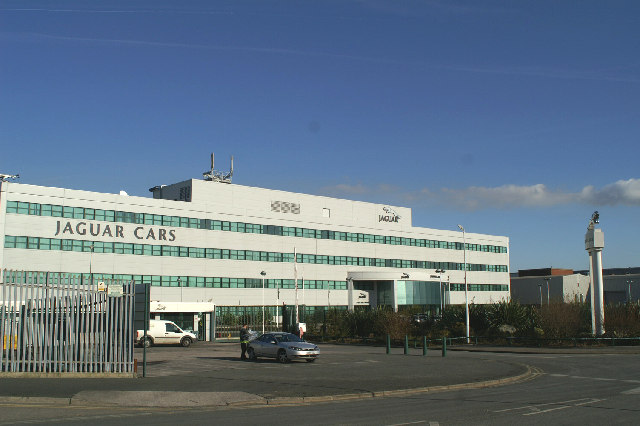 Where rabbits once hopped... ...the jaguar now leaps. Ford have turned over their Halewood factory to the production of prestige Jaguar cars.